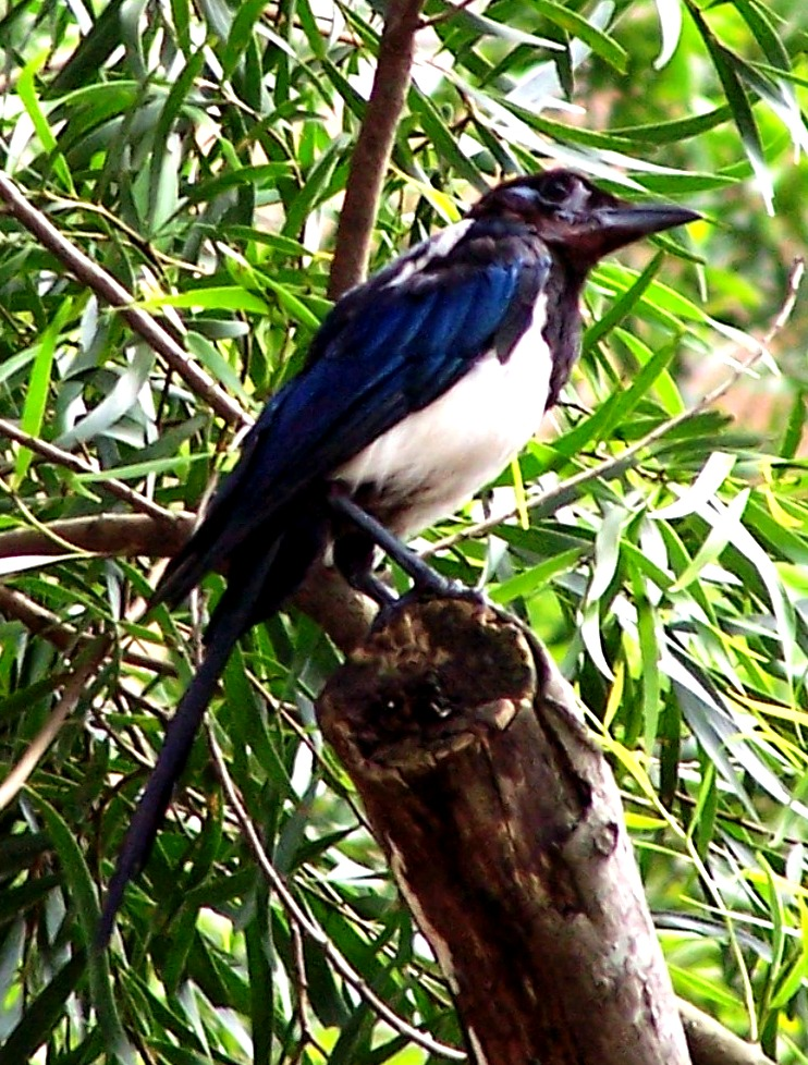 Eurasian Magpie (Pica serica) in Hong Kong.